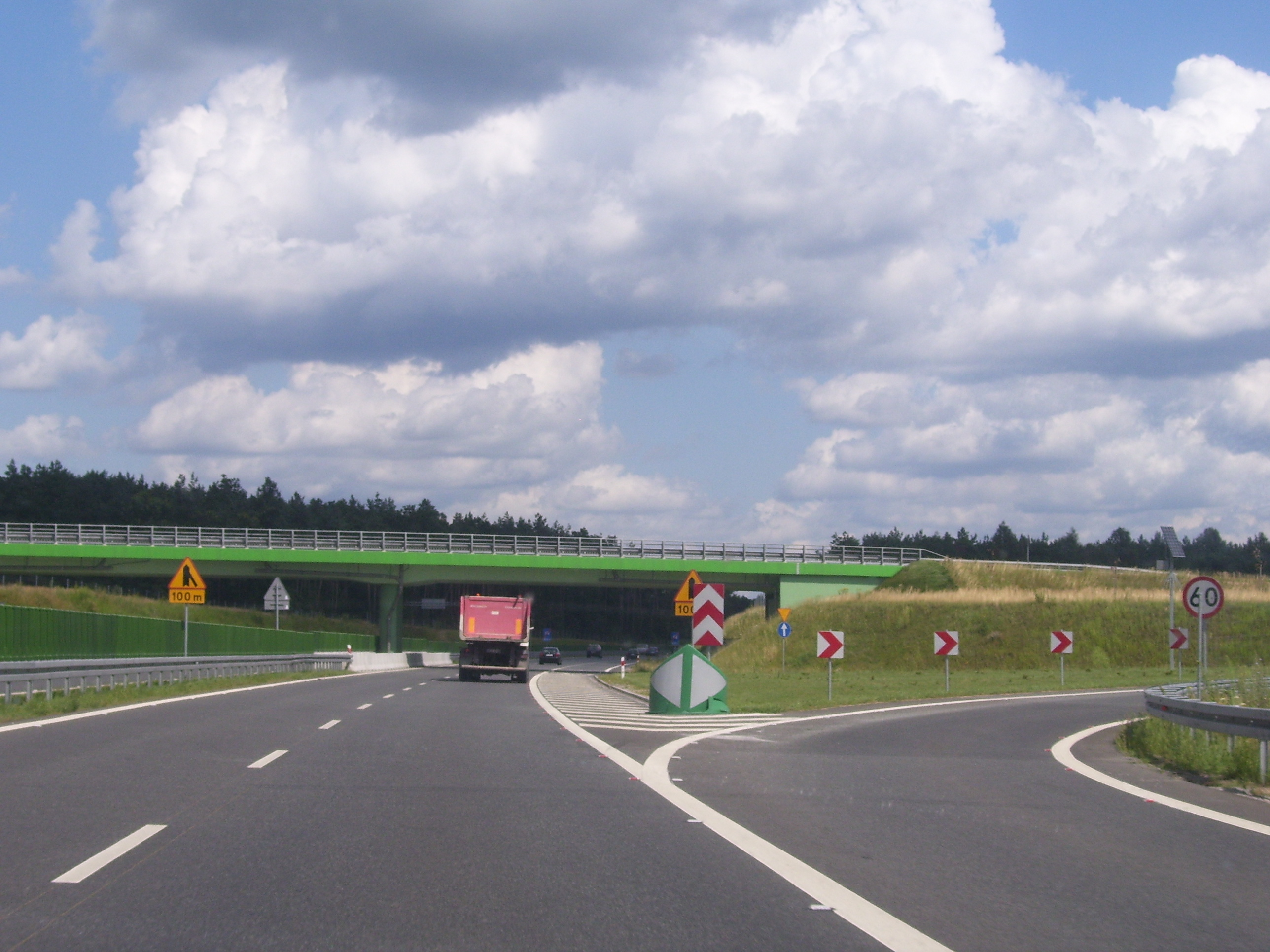 DK8 (Poland)